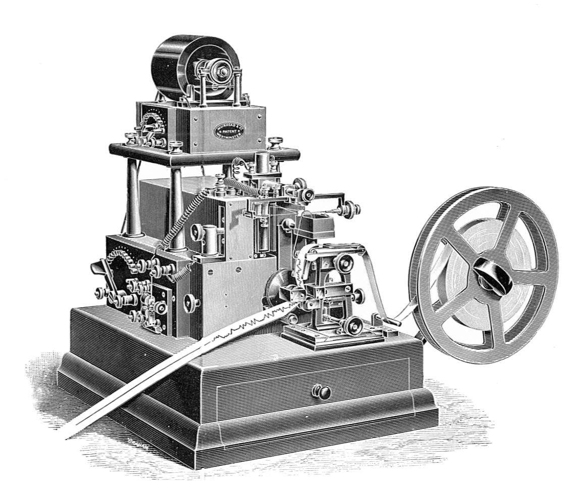 Automatic Syphon Telegraph Receiver Muirhead's Syphon recorder